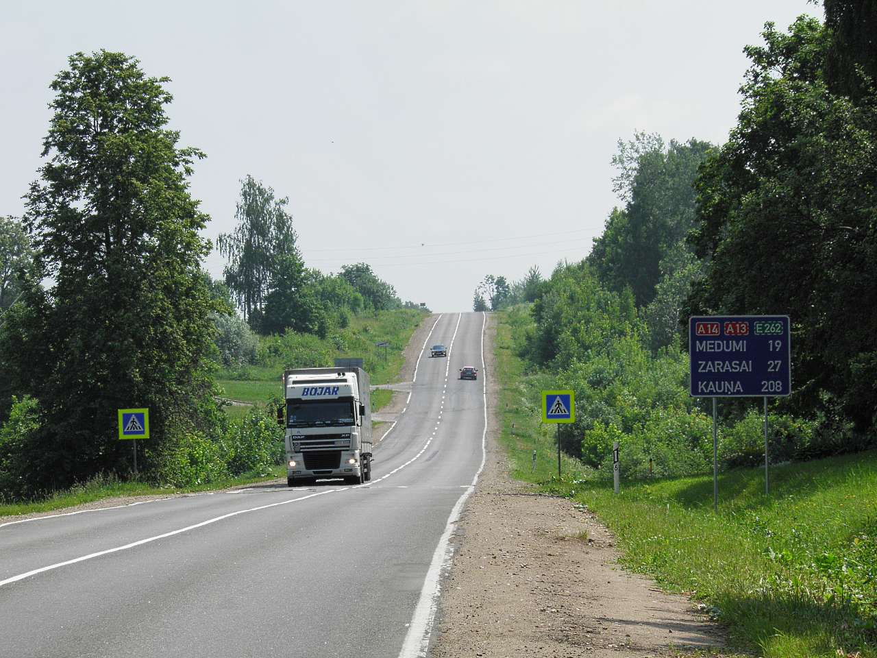 National road A14 near Svente, Daugavpils municipality, Latvia